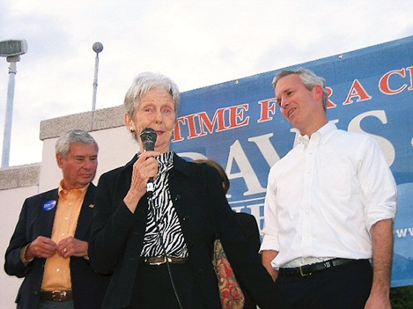 Accompanying note: "Rhea Chiles, the widow of Gov. Lawton Chiles, addresses a Democratic Party rally in Broward County during the last week of the 2006 campaign for governor. U.S. Rep. Jim Davis of Tampa (R) was the party's nominee that year. Former governor and ex-U.S. Sen. Bob Graham (L) also campaigned extensively with Davis, but he lost to Republican Charlie Crist, the state's attorney general at the time."